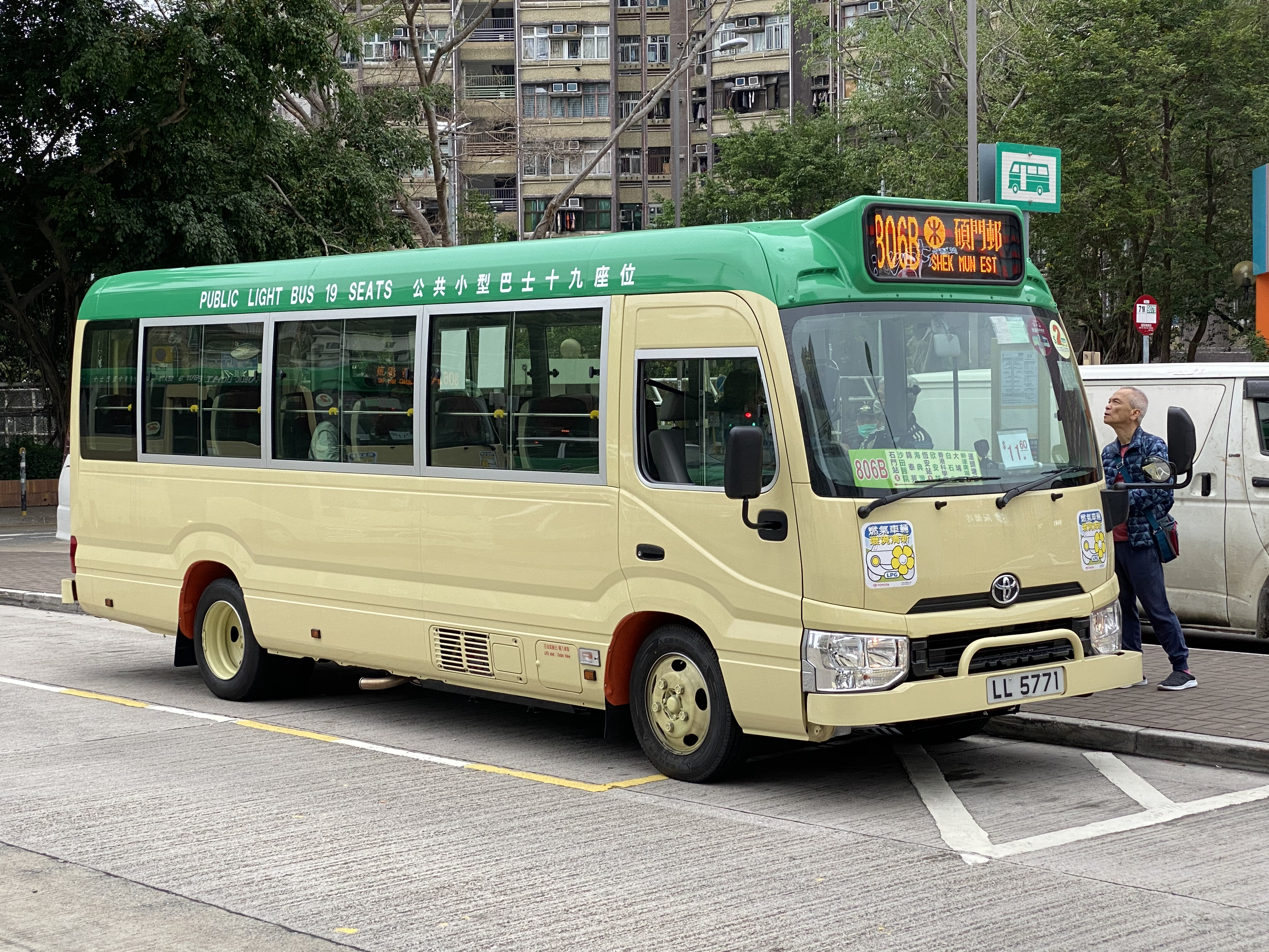 中文（香港）: This photo is taken in Wan Tau Tong.